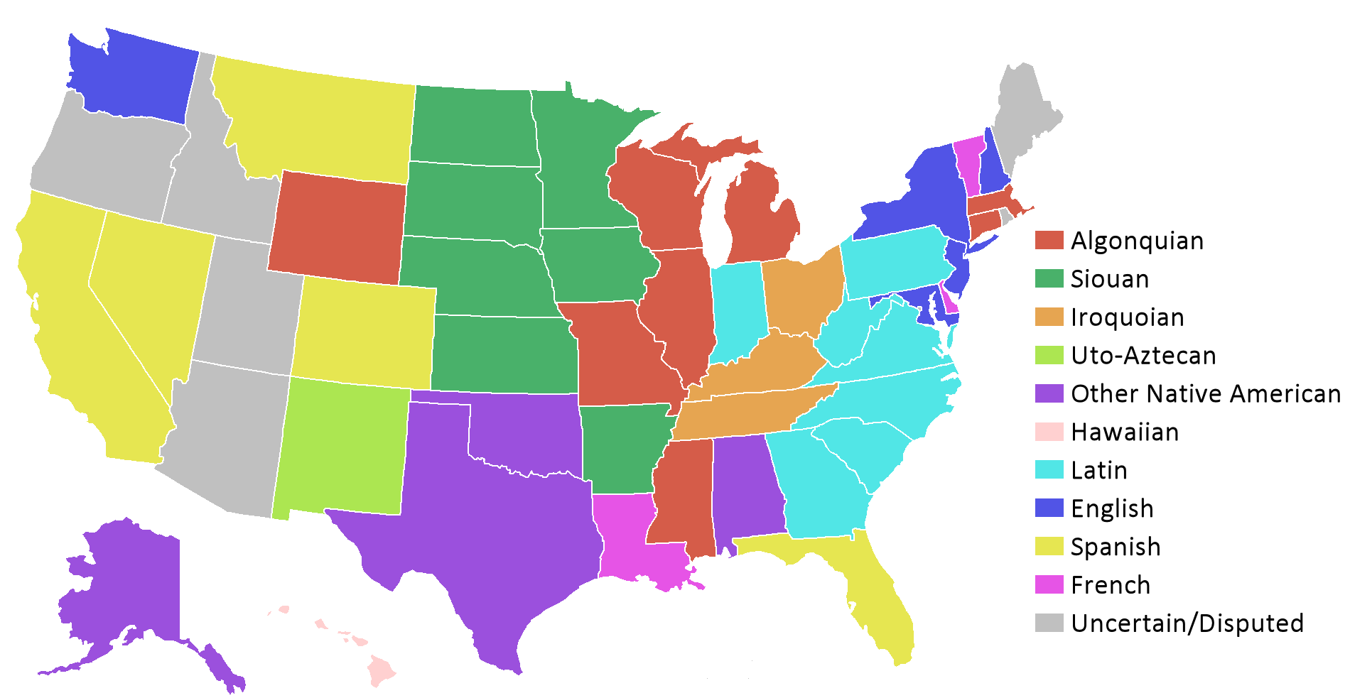 Map showing the source languages of the names of US states (see List of U.S. state name etymologies). Based on BlankMap-USA-states.PNG.